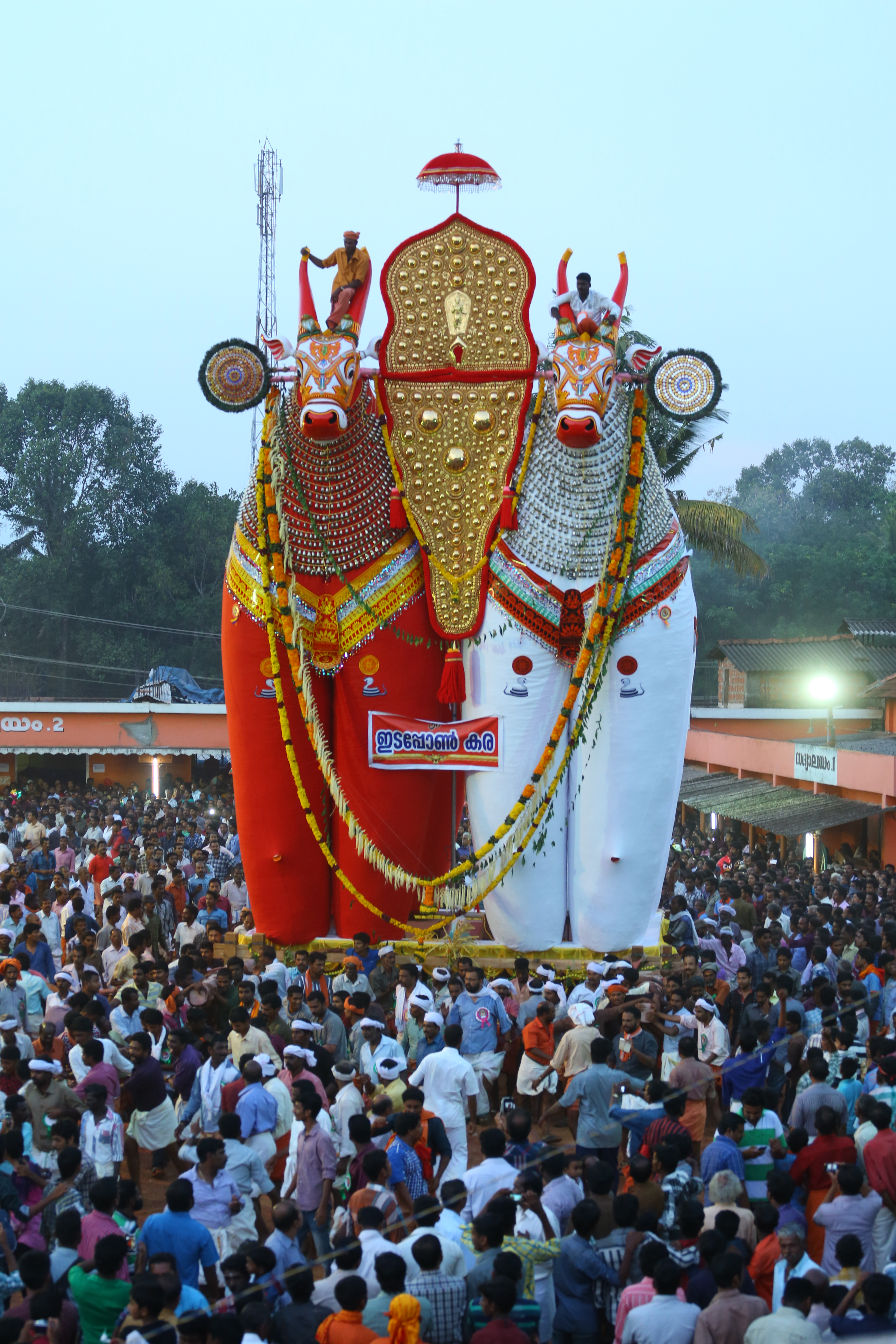 edappon